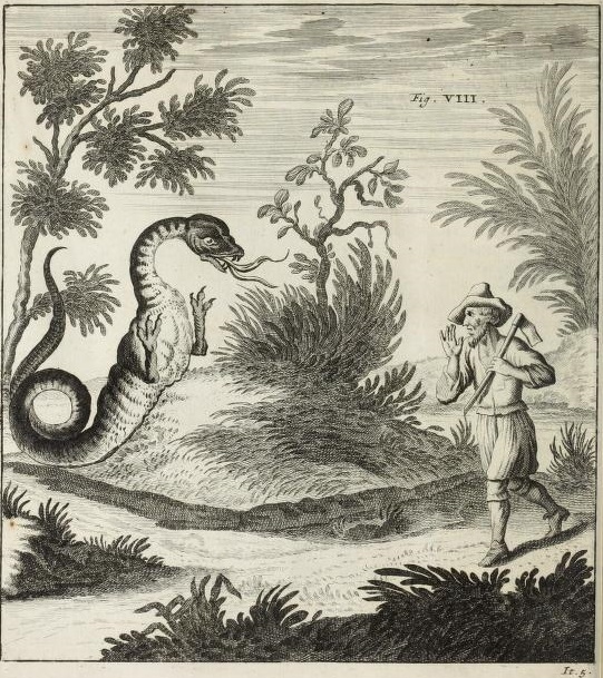 Illustration (fig. VIII) depicting a mythical "Alpine dragon" with two forelegs, Fig VIII, encountered on Mt. Kamor by 70-year old Johannes Egerter (Martis-Hans-) from the village of Lienz (St. Gallen). It was black with yellow-stripes, and had a golden-colored belly.